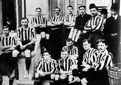 Football team of Alumni Athletic Club that defeated South Africa 1-0 at Sociedad Sportiva. Players are: Carlos Brown, Jorge G. Brown; Alfredo Brown, Carlos Buchanan, Patricio Browne, José Buruca Laforia; Carlos Lett, Eliseo Brown, Andrés A. Mack, Ernesto Brown, Gotlobb Weiss.